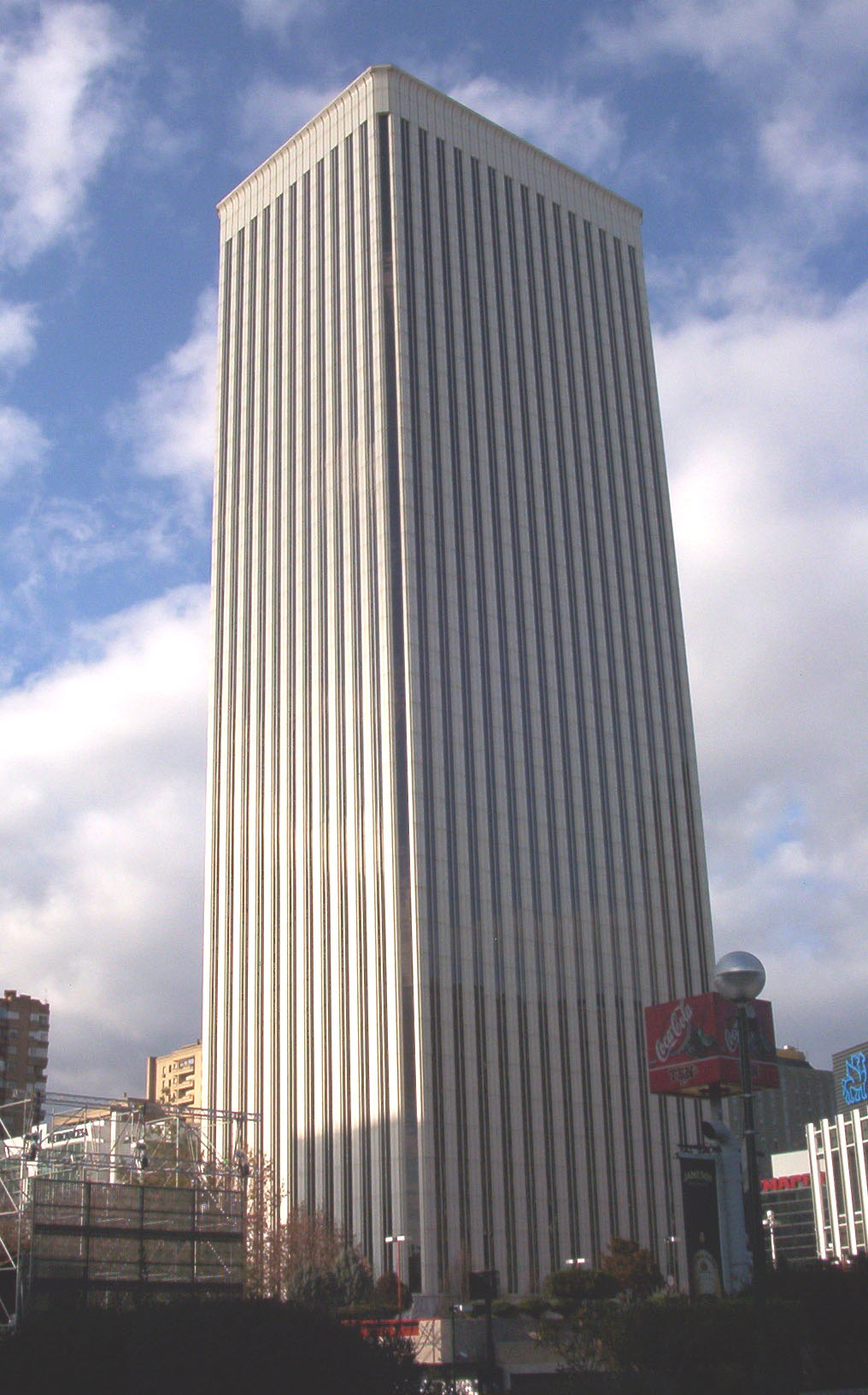 View, from the southeast angle, of Torre Picasso, in AZCA business park in Madrid (Spain). Projected by architect Minoru Yamasaki (1912–1986) and built from 1982 to 1988.